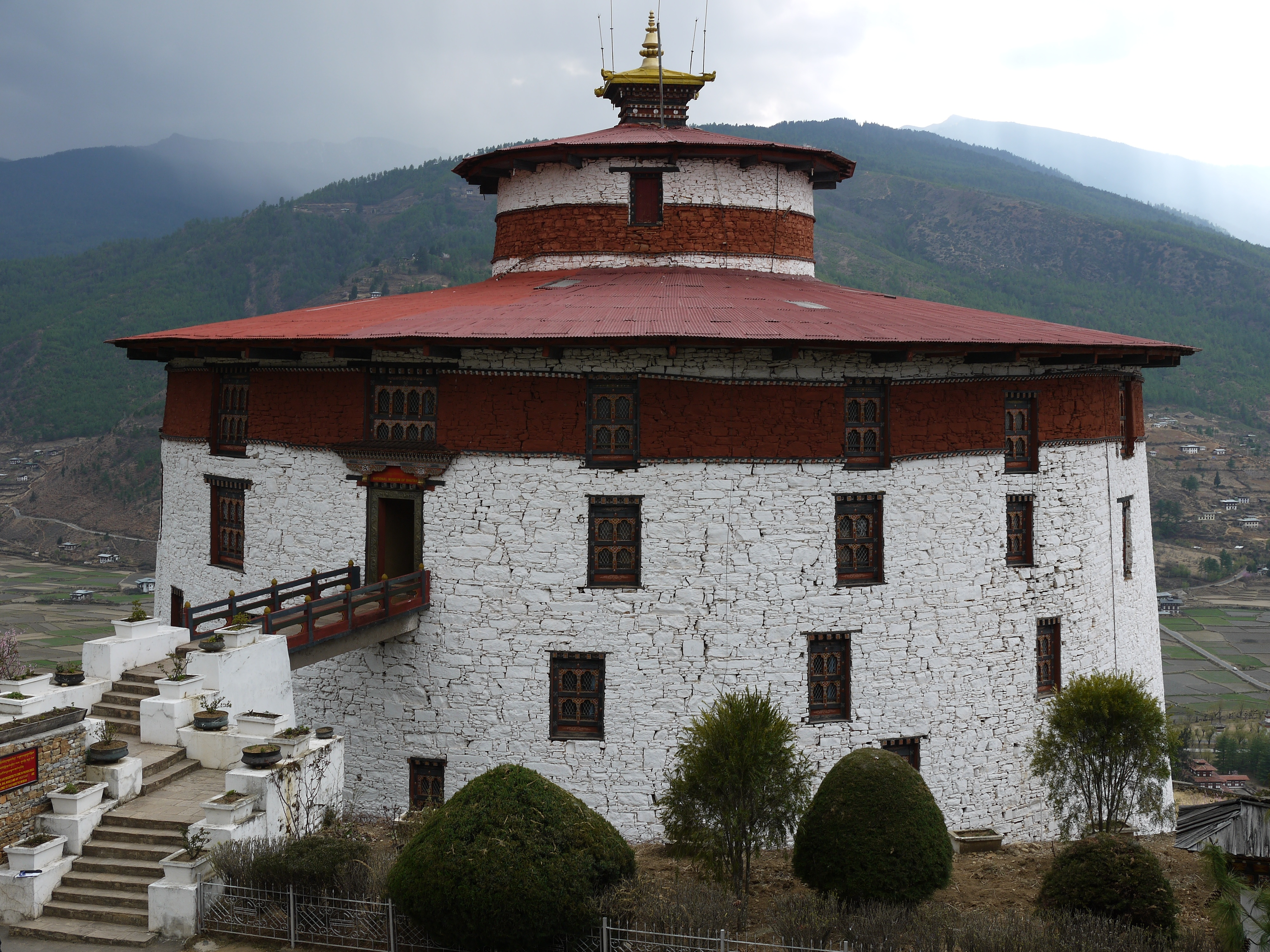 Ta-Dzong, the old watch tower, converted into a museum.